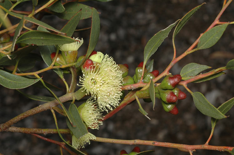 Flowers and buds of Eucalyptus nutans, yellow form in the Mount Annan Botanic Gardens, New South Wales